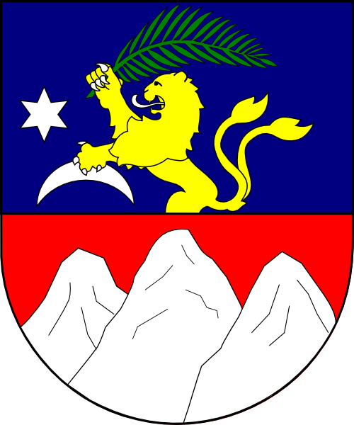 Coat of arms (shield only) of István Bosnyák (Štefan Bošňák), bishop of Pécs, Hungary (1639 - 1642), bishop of Veszprém, Hungary (1642 - 1644), bishop of Nitra, Slovakia (1644).